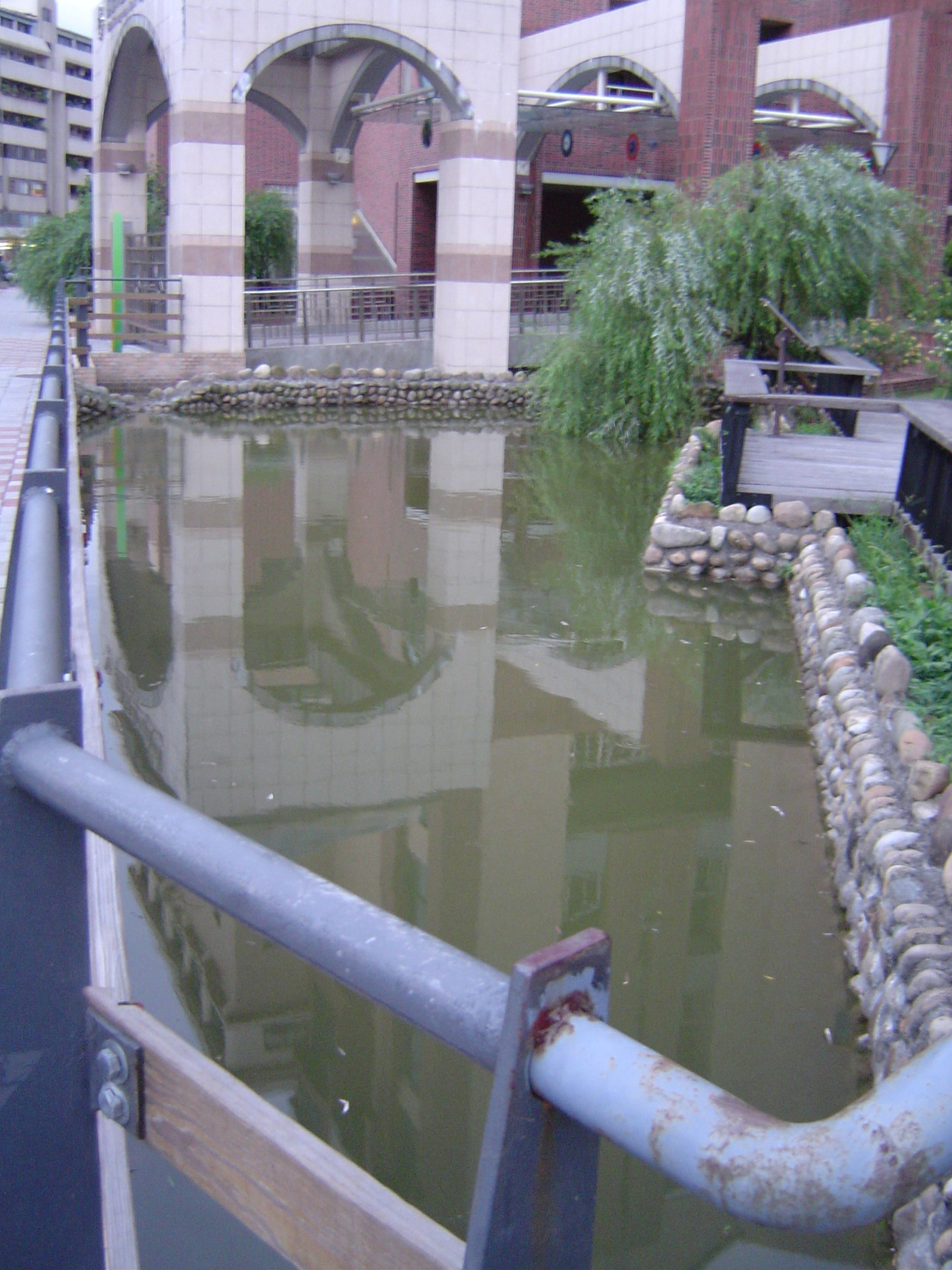 A front pond of the heritage, Huang Family Qianrang Estate, in Daan District, Taipei, Taiwan.